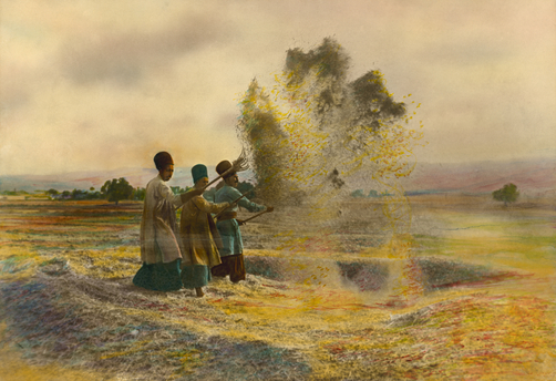 Iran